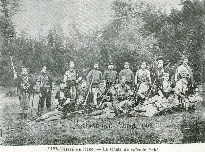 Kichevo region cheta of IMARO - voevodas Naki Yanev and Maksim Nenov